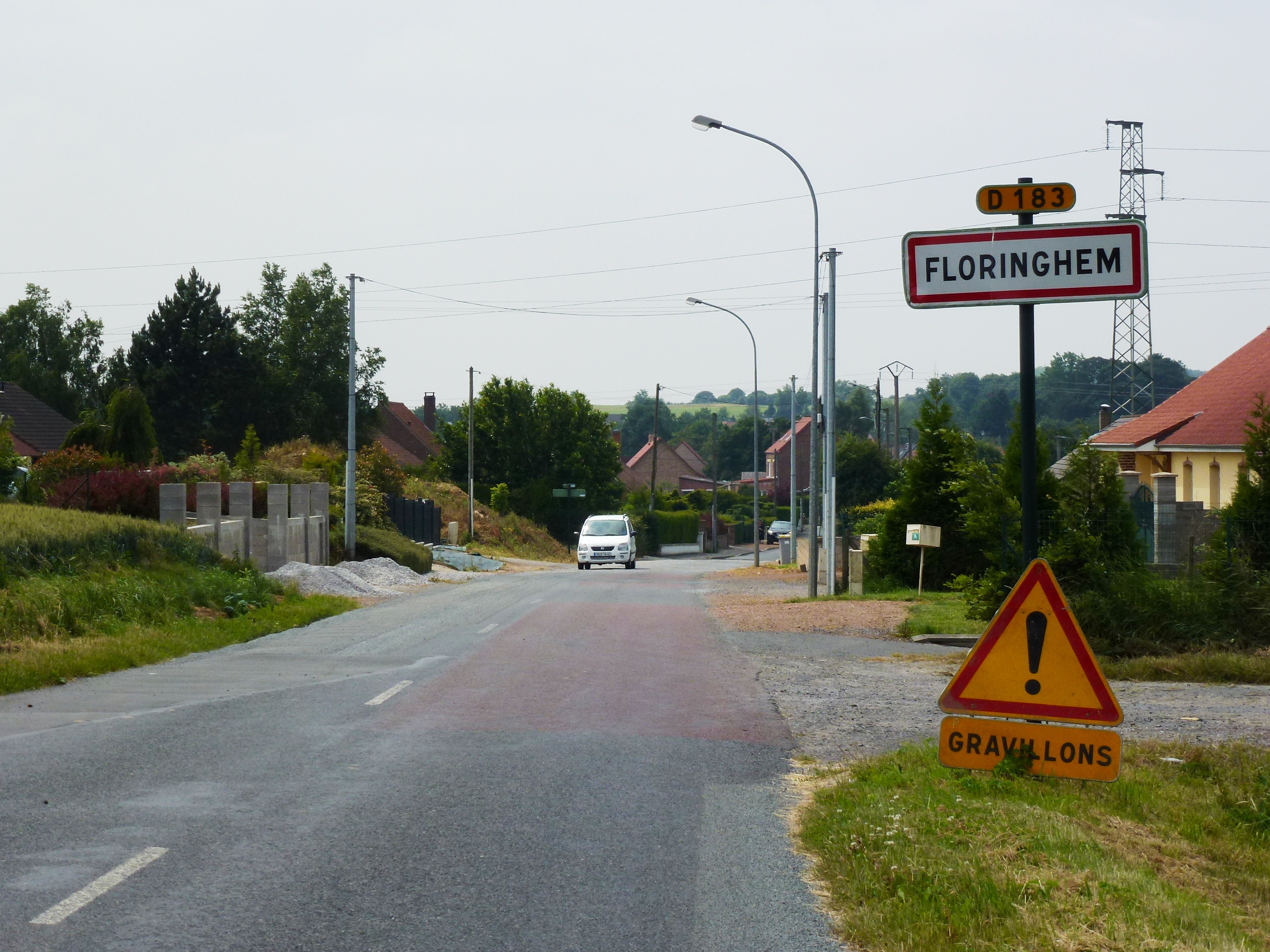 Floringhem (Pas-de-Calais, Fr) city limit sign